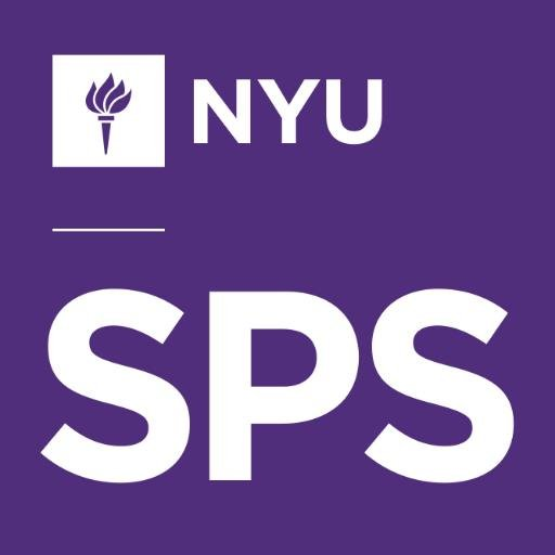 NYU SPS logo